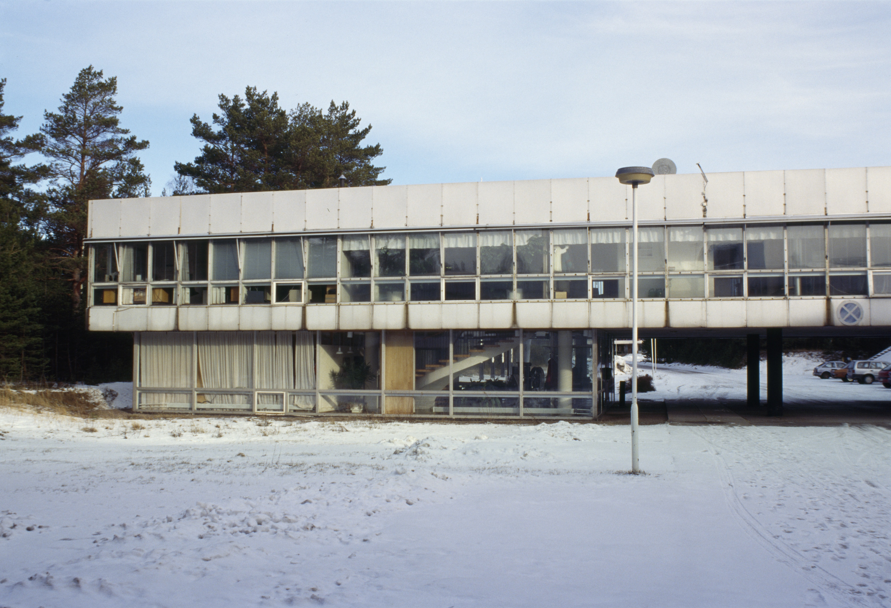 The office wing of Hyvon-Kudeneule knitwear factory in Hanko, Finand. Architect Viljo Revell, completed 1955.